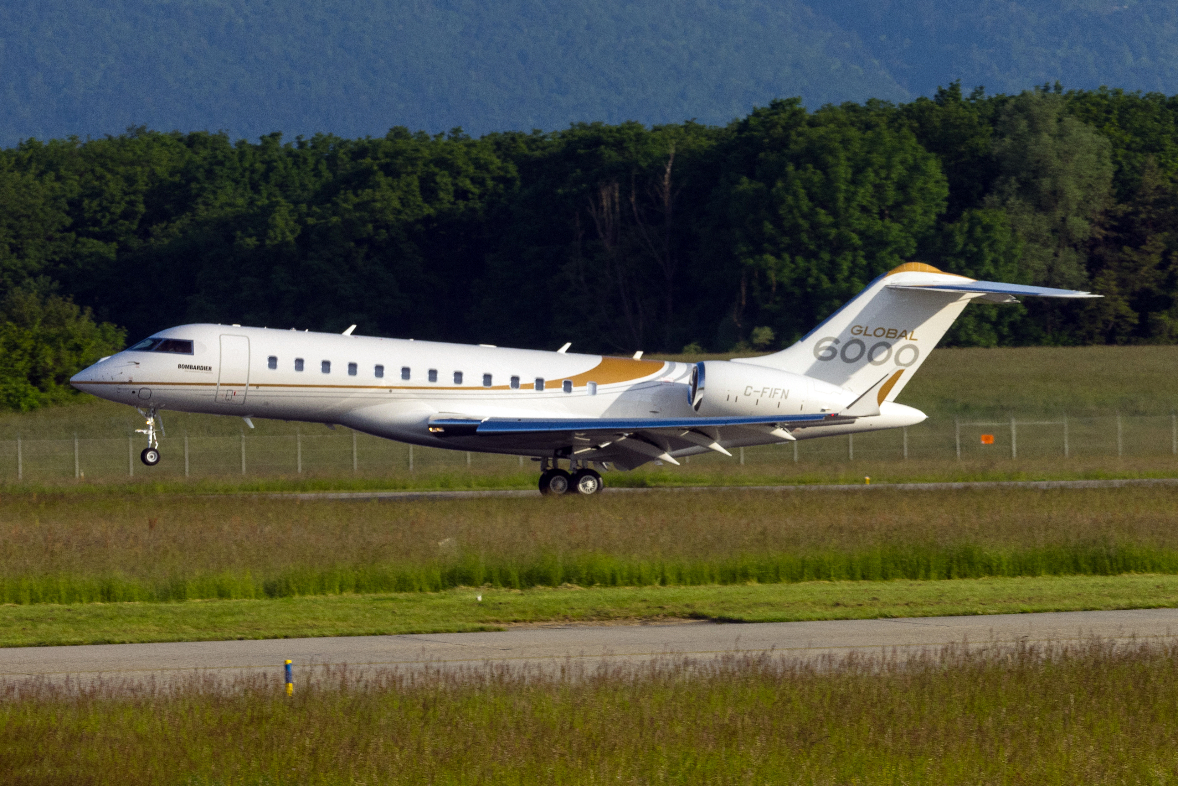 Geneva International Airport